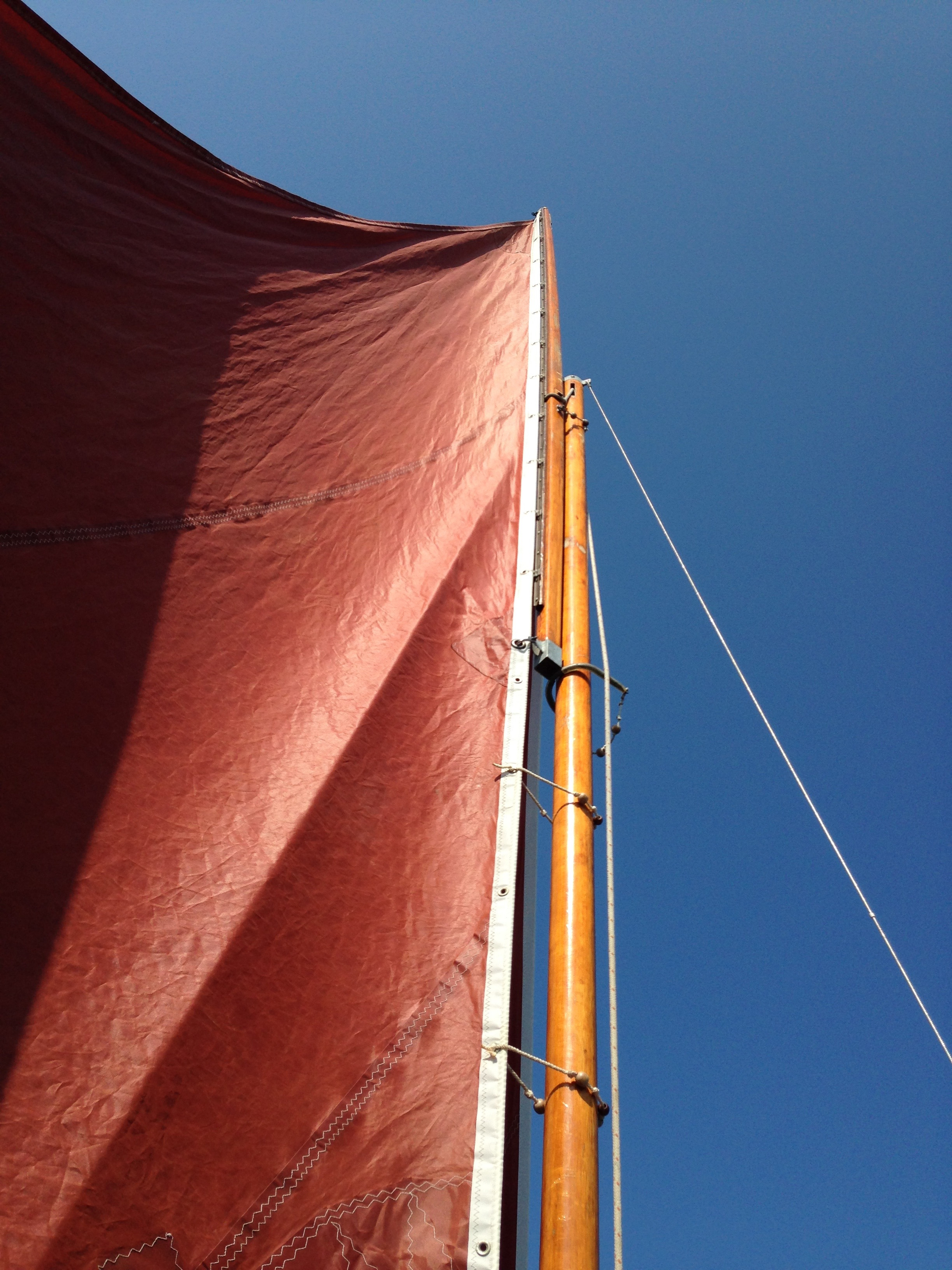 This is a picture of the sliding gunter gaff and mast on the 1980 Drascombe Lugger Onkahye.